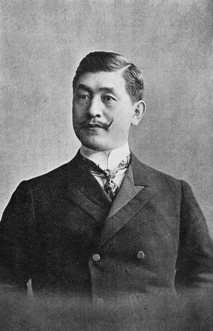 Y. Yahagi, Professor of Political Economy in the Imperial University of Tokyo.